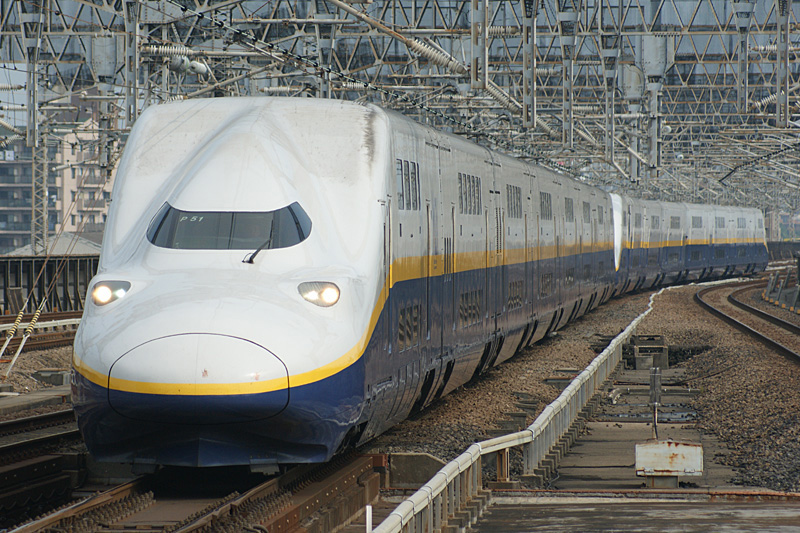 JR East E4 series Shinkansen approaching Omiya Station